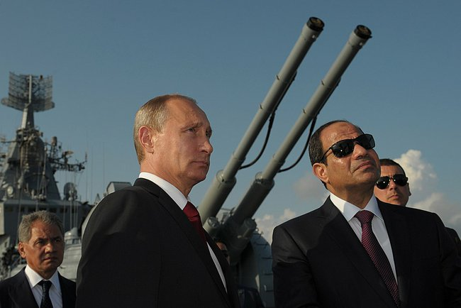 Vladimir Putin and President of Egypt Abdel Fattah al-Sisi visited the Moskva missile cruiser. The two leaders were welcomed by the crew and the ship’s commander – Captain 1 Rank Sergei Tronev, who showed the presidents around the ship and told them about the missions the cruiser can carry out. The ship is designed to support ocean-faring vessels and destroy carrier-based attack units. The commander also described in detail the weaponry the cruiser is equipped with.